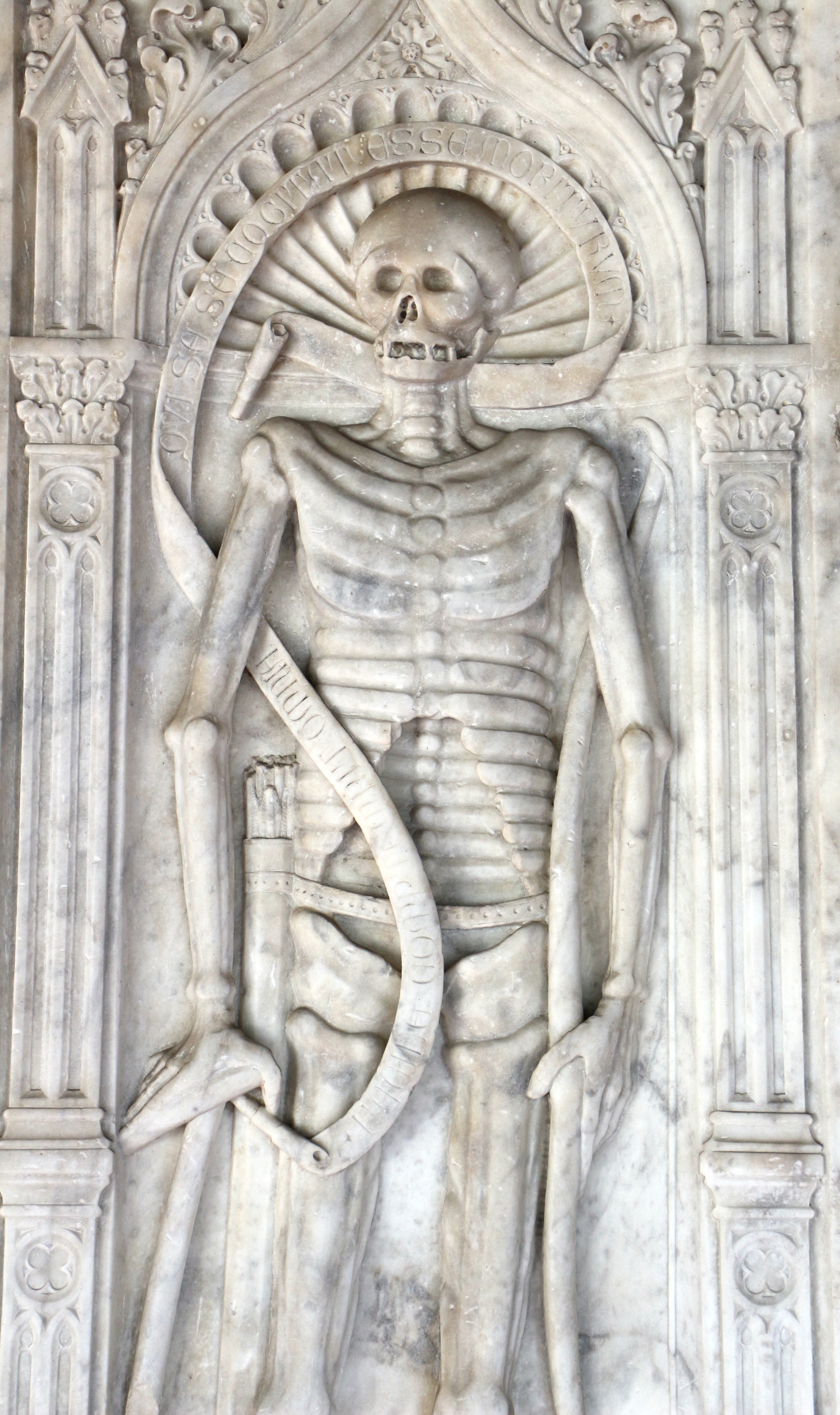 Santa Maria di Castello (Genoa) - Convent